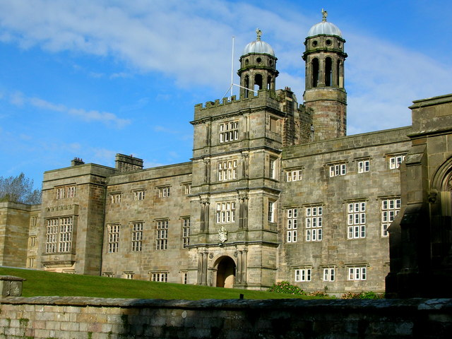 Stonyhurst College, near to Hurst Green, Lancashire, Great Britain.